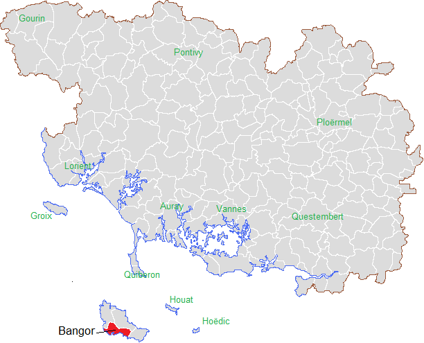 placement Bangor in departement Morbihan